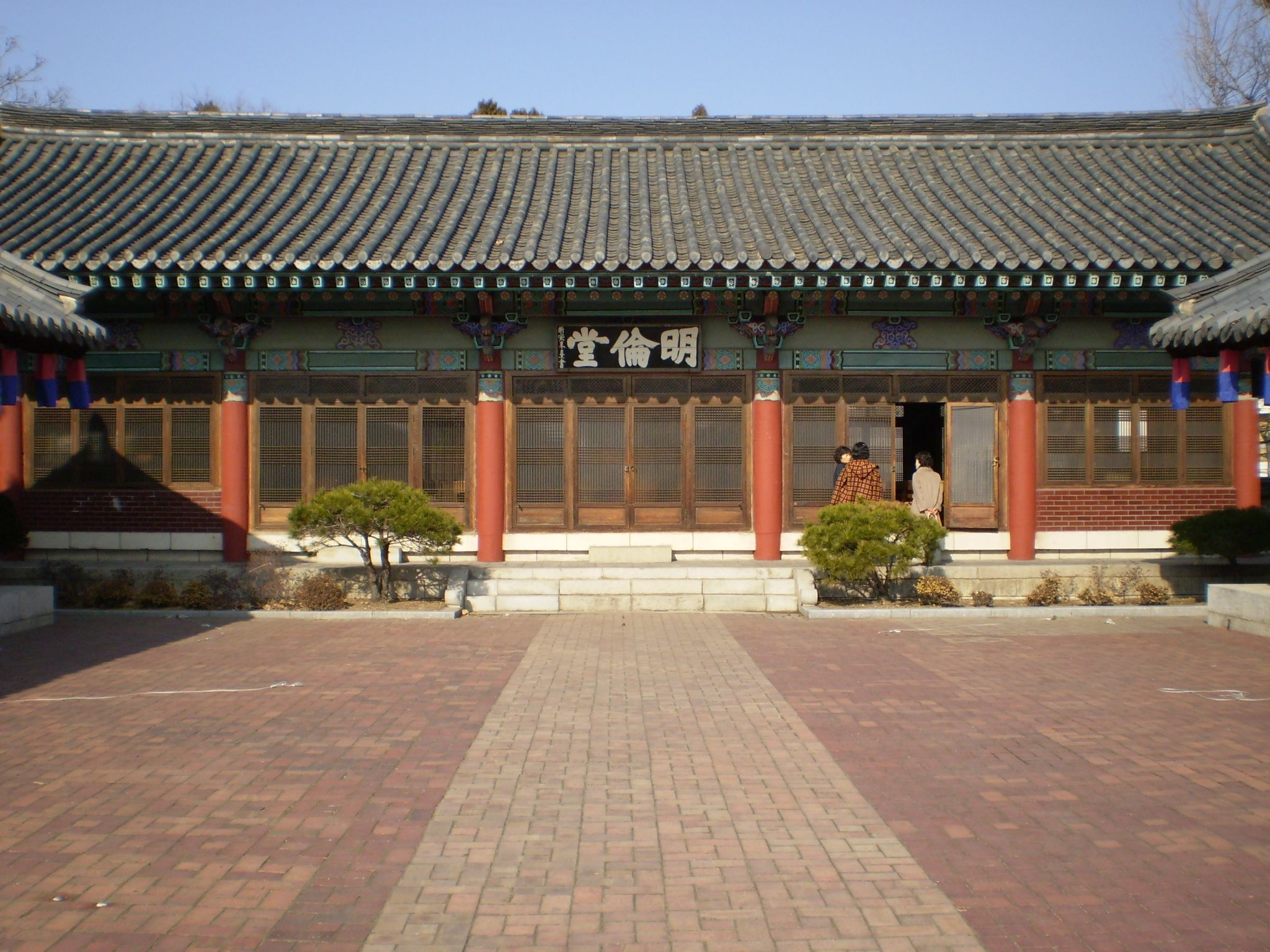 The myeongnyundang, or main lecture hall, of the Daegu hyanggyo in Daegu, South Korea.